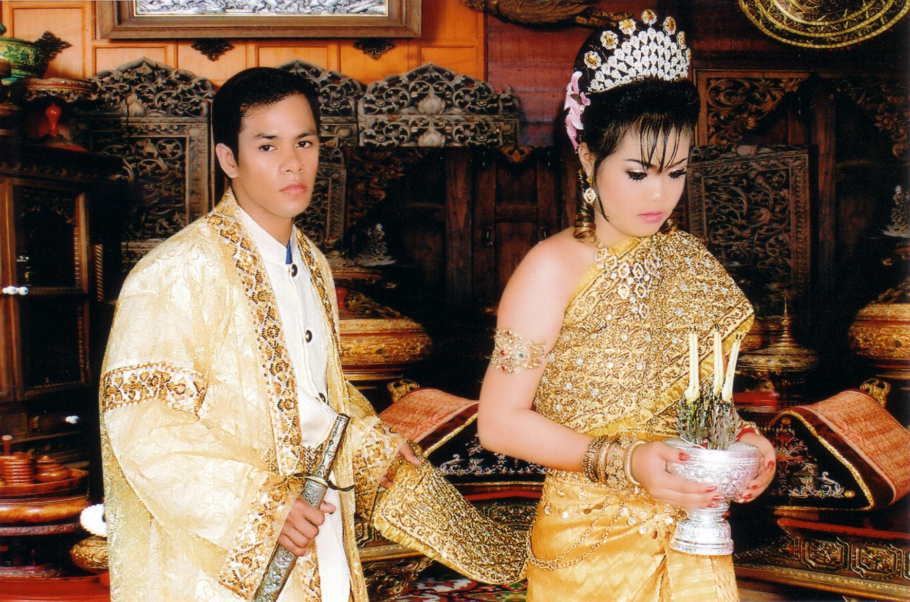 The art and culture Cambodia phnom penh